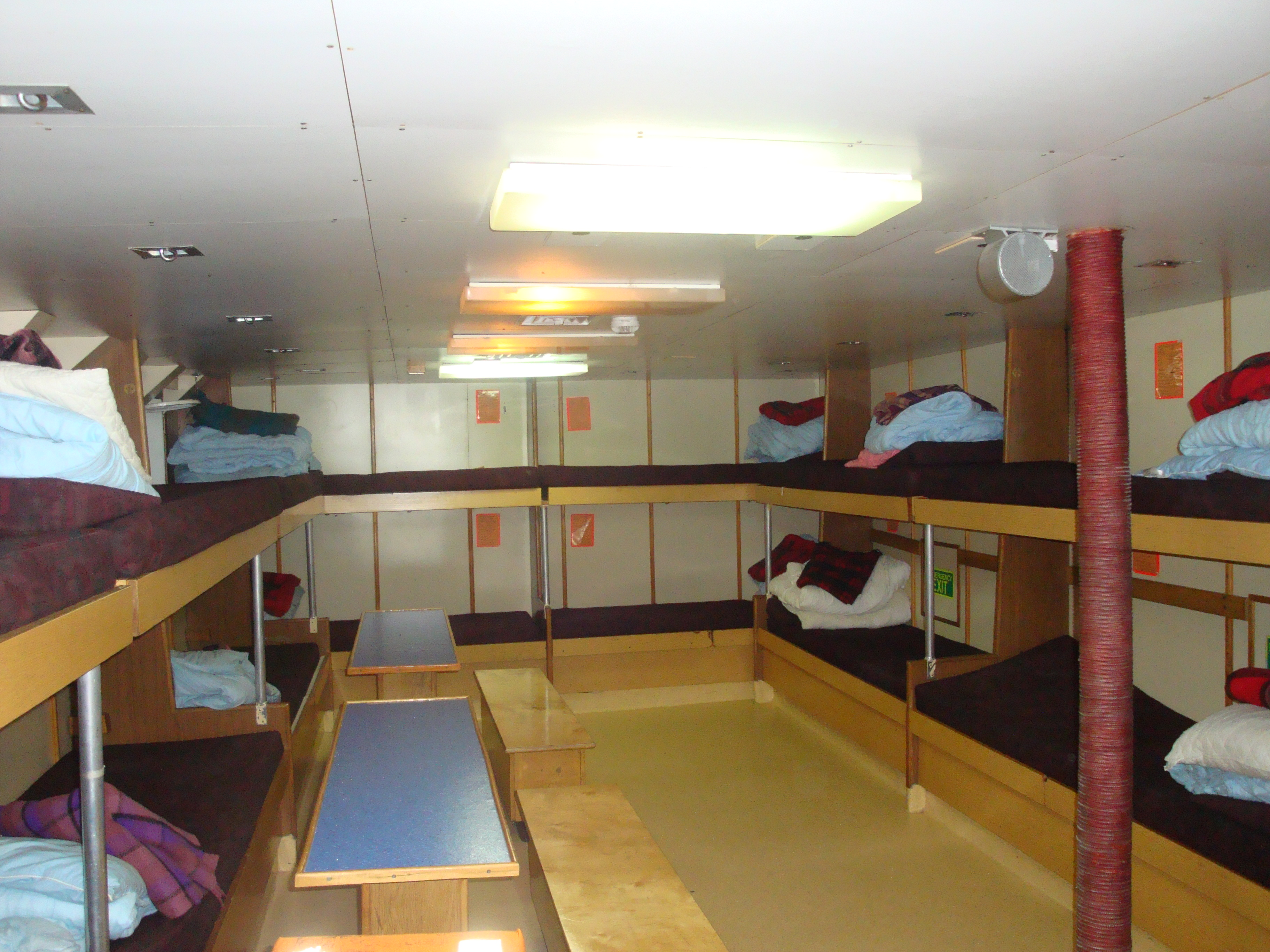 Cadet's room on Polish tall ship Dar Młodzieży